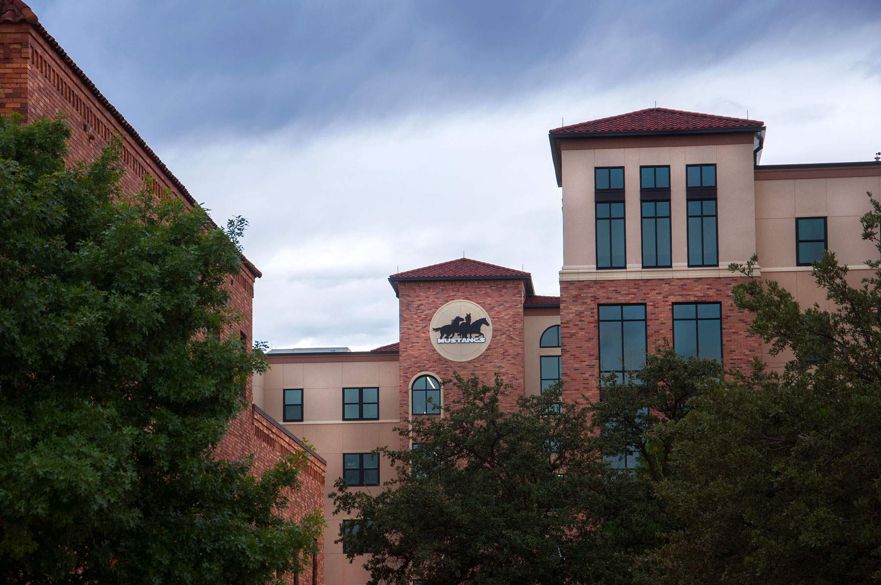 The Legacy Hall was completed in 2016 making it the newest residence hall at Midwestern State University. It houses over 500 beds and includes a multi-purpose room, post office boxes, convenience store, recreational area, and study lab.